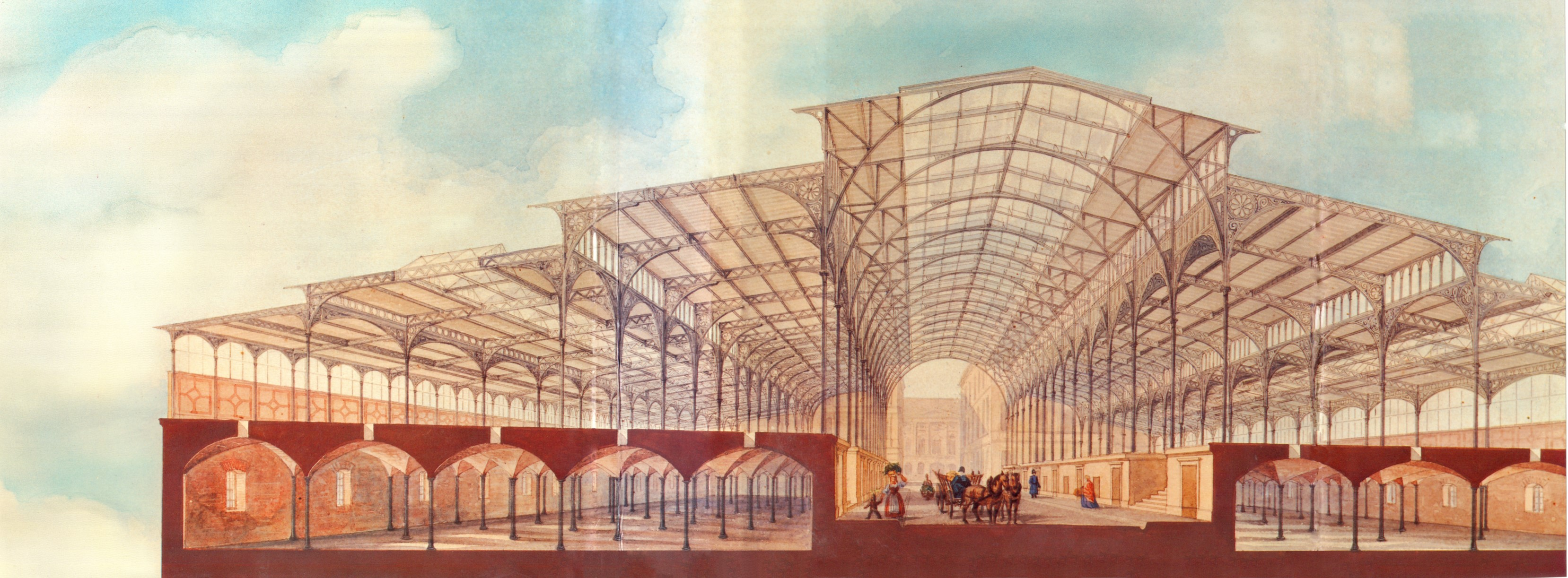 Former market hall in Berlin, Schiffbauer Damm, built by Friedrich Hitzig between 1865 and 1868